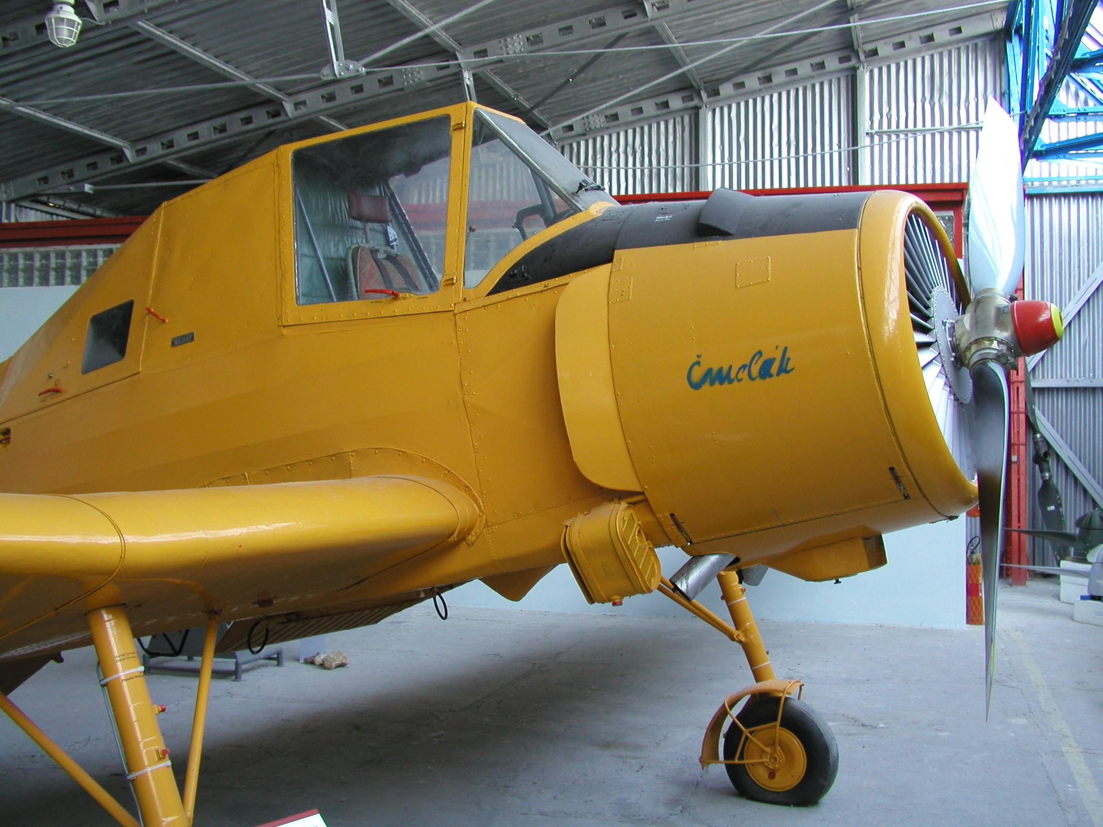 Z-37 Cmelak agricultural aircraft